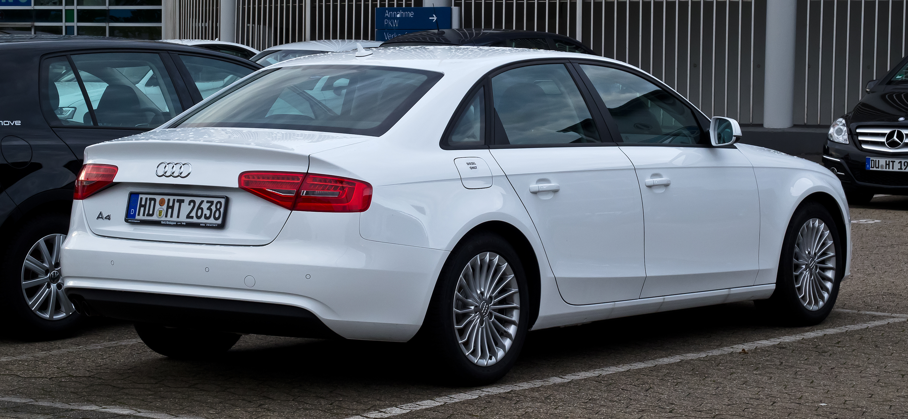 Audi A4 2.0 TDI Ambition (B8, Facelift)